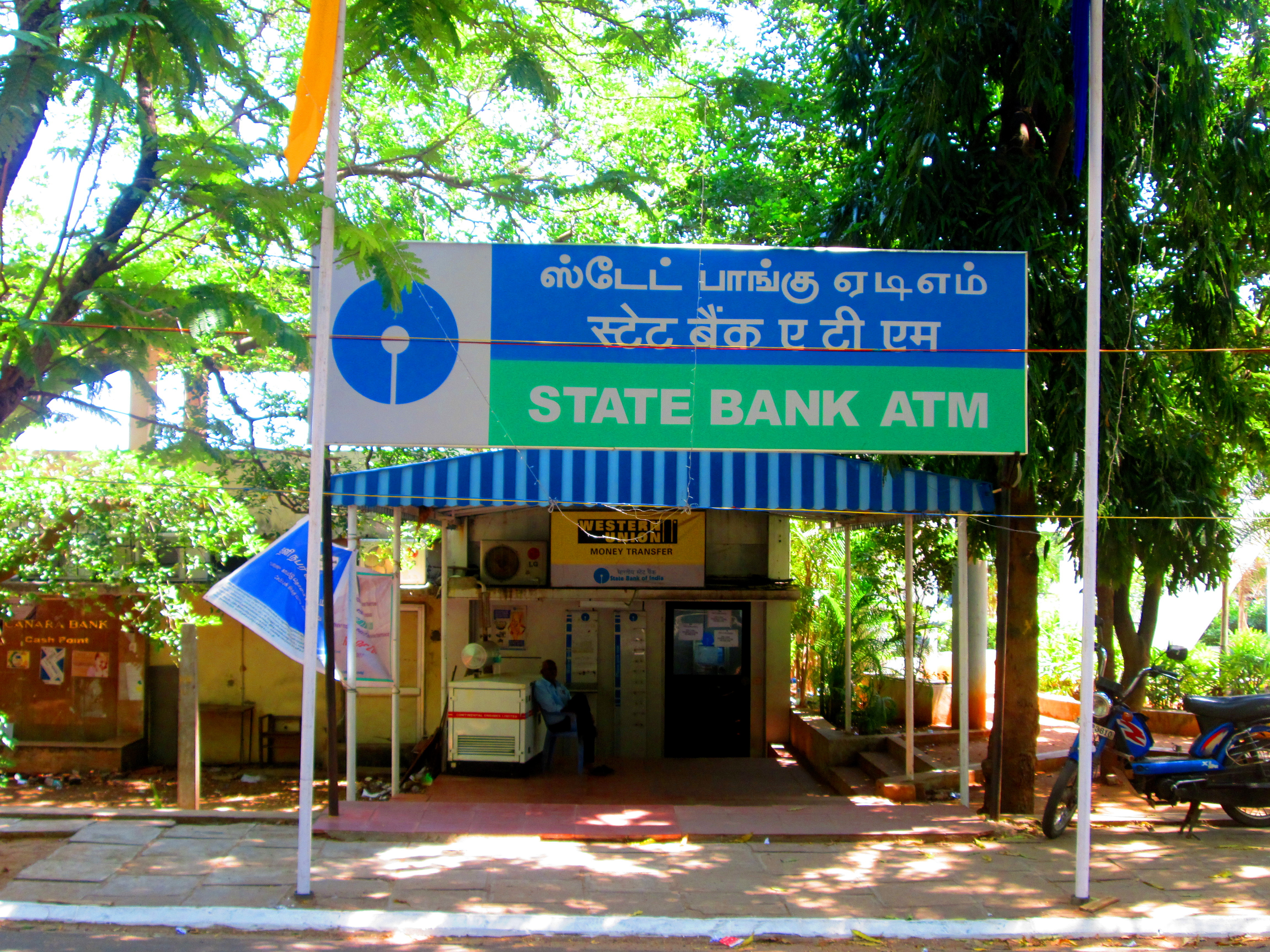 State Bank of India ATM in College of Engineering, Guindy, Anna University.